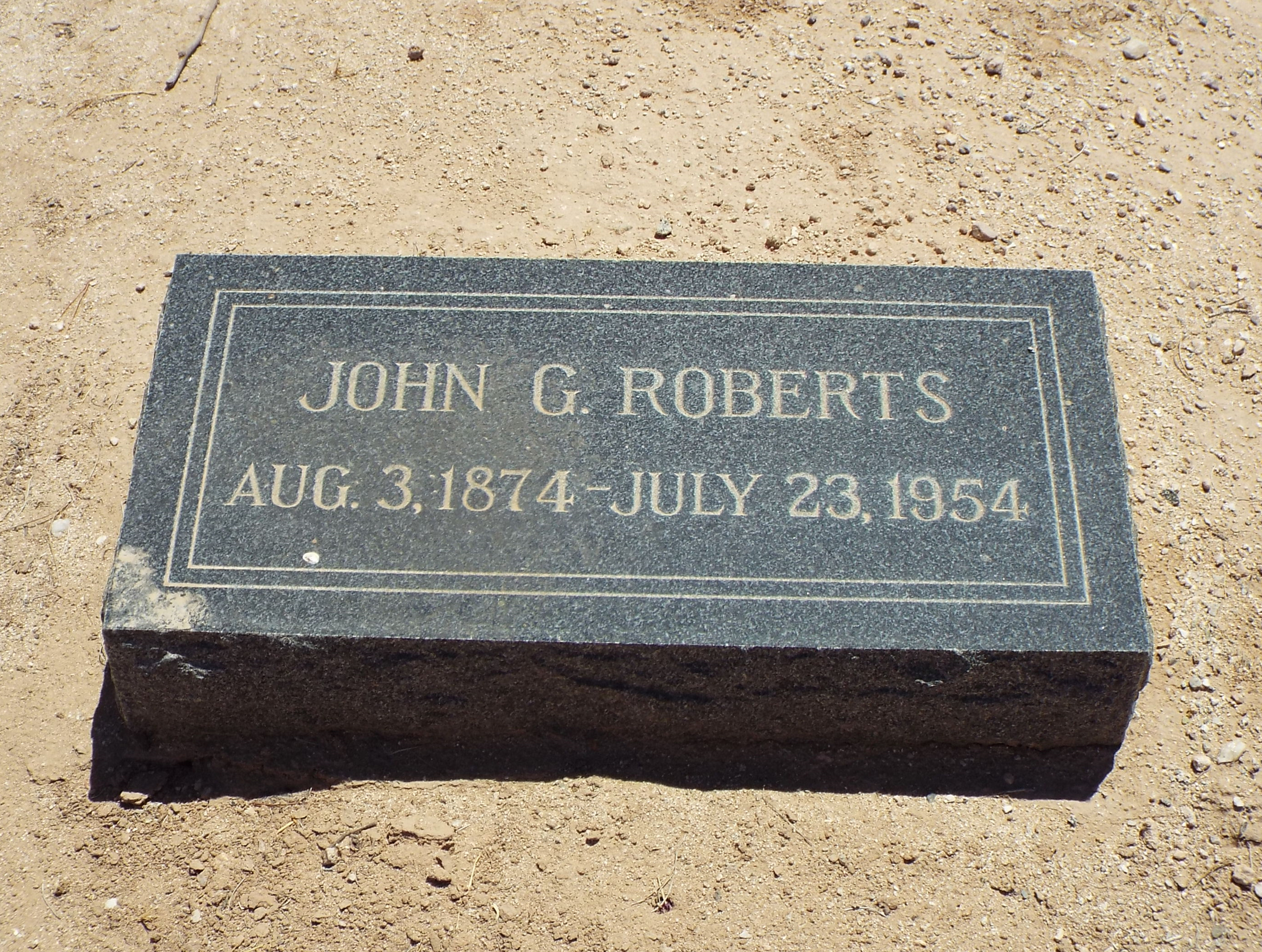 Grave of John G. Roberts (1874-1954). Roberts first settled the Palo Verde area in the Buckeye Valley with his family in 1886. Roberts helped in the construction of the Arizona and Buckeye canals, served a term as cattle inspector, and was deputy sheriff at Buckeye under three Maricopa County sheriffs